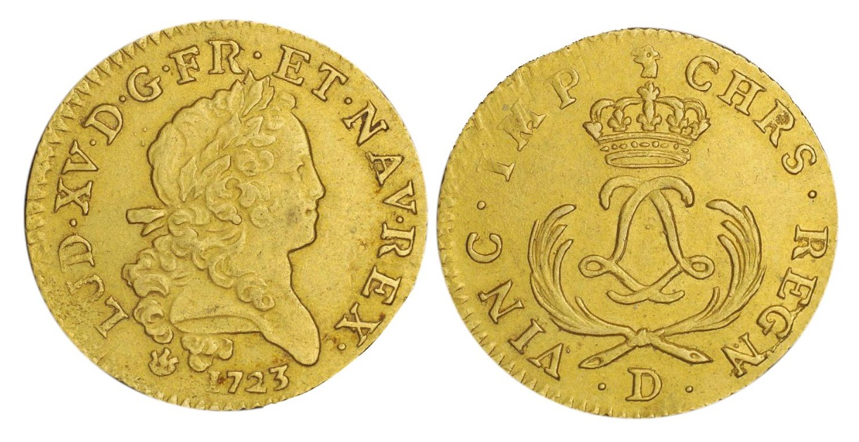 Louis d'Or of 1723. Period of the Regency. Coin found in the wreck of the ship Camel wrecked in 1725 near Louisbourg.